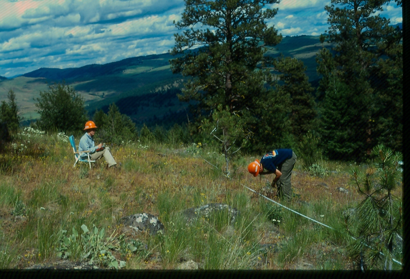 Parker Method also called the loop method for analyzing vegetation, useful for quantitatively measuring species and cover over time and changes from grazing, wildfires and invasive species. Demonstrated by American botanist Thayne Tuason and an assistant.